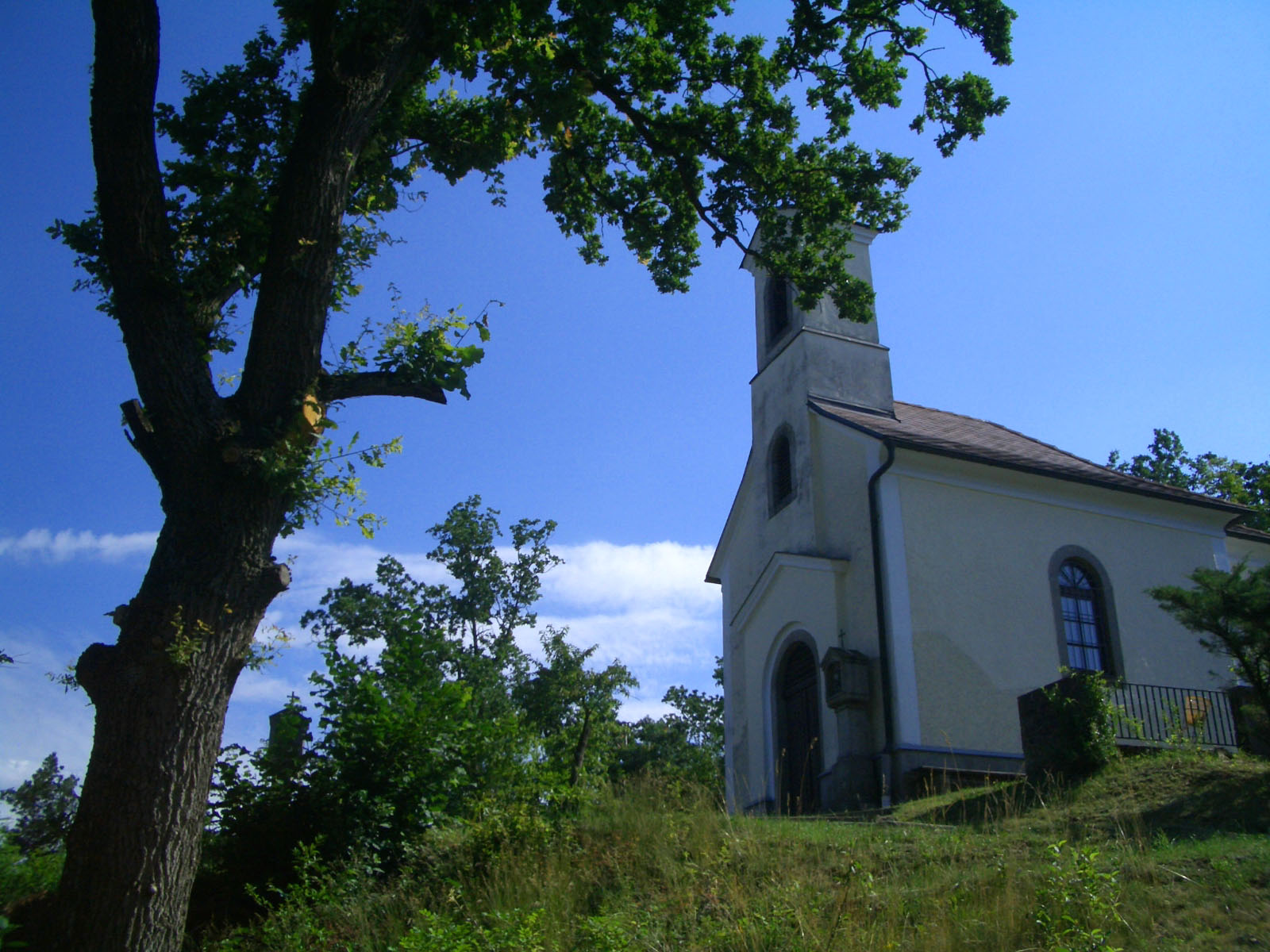 Chapel of calvary hill near Feldaist river in Pregarten